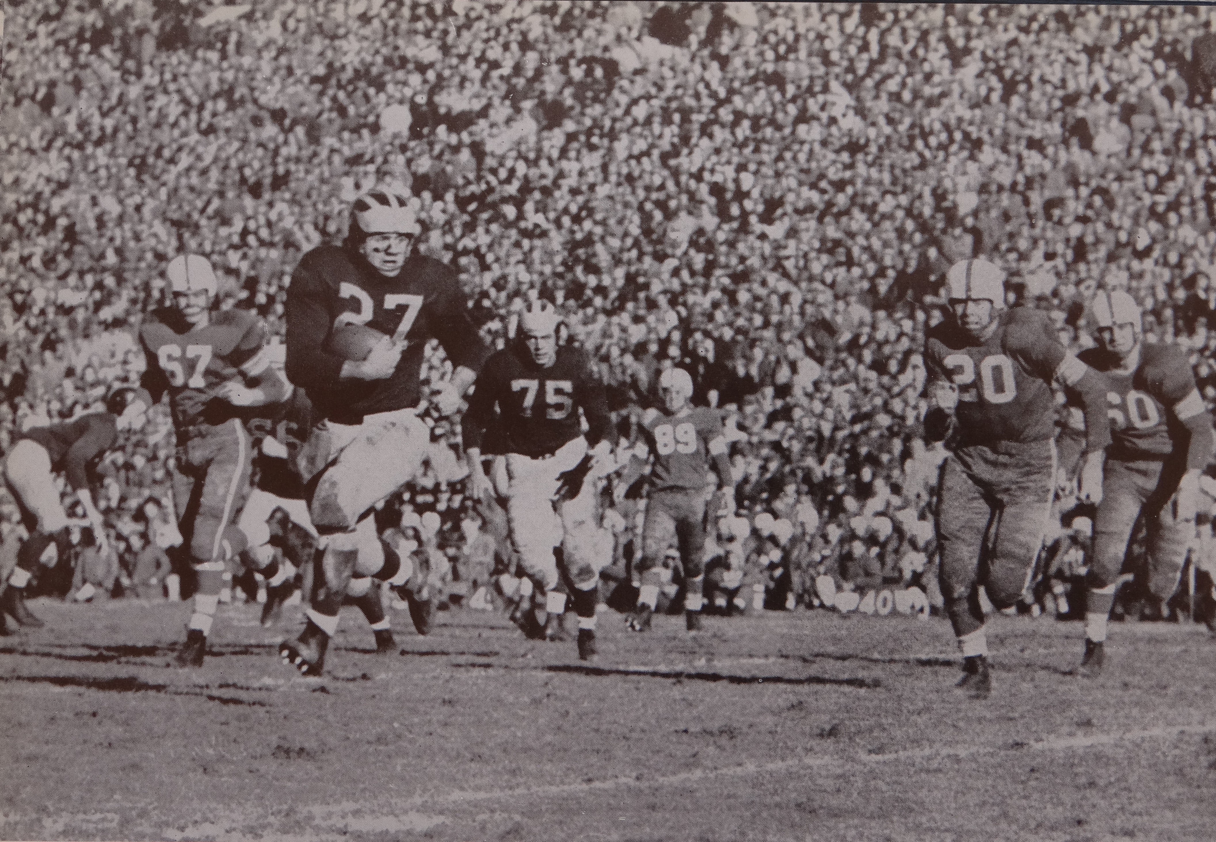 Photograph of Ted Topor (No. 27) carrying the football for the 1951 Michigan Wolverines football team